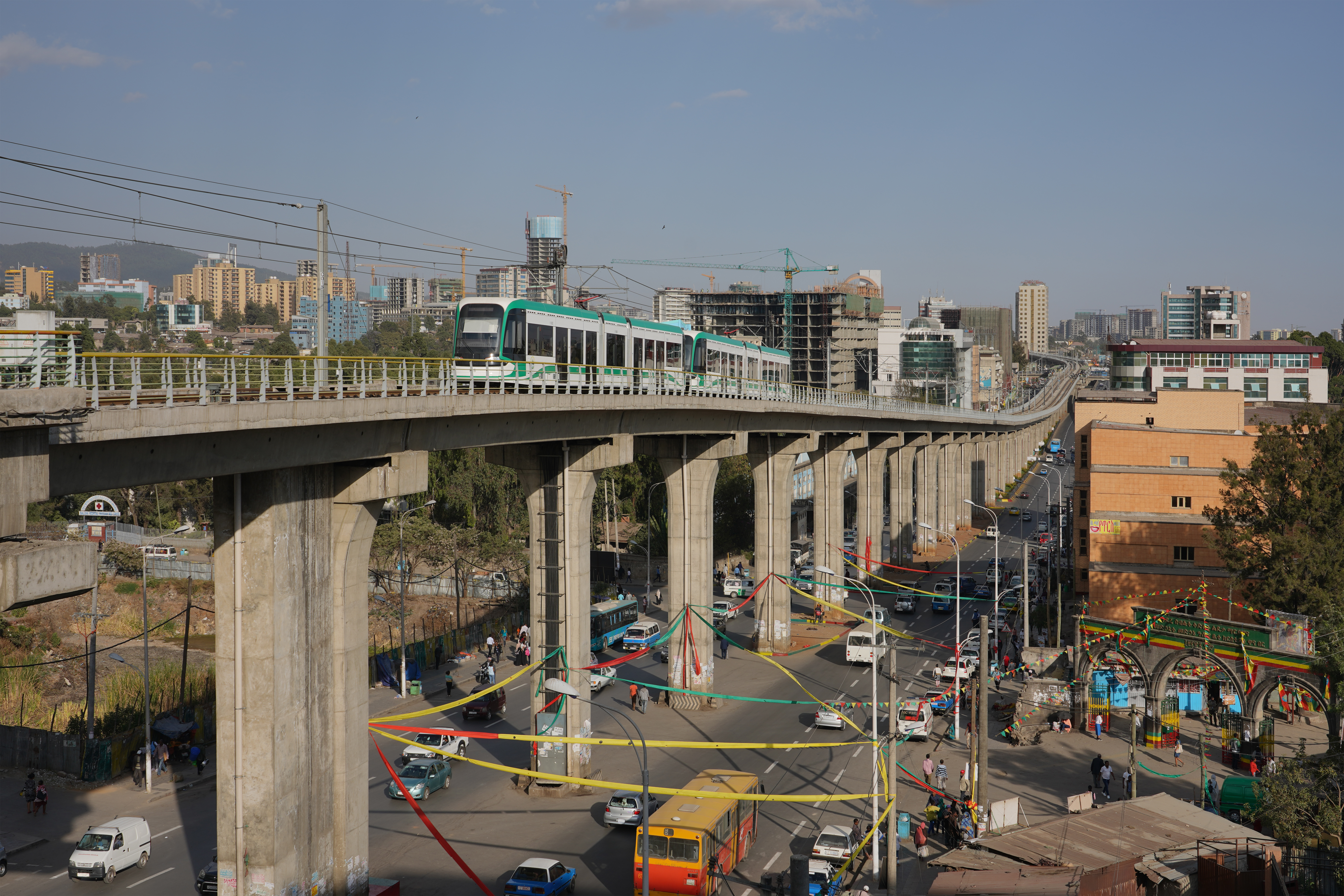 View of the Light Rail (at Lideta station) in Addis Ababa, Ethiopia